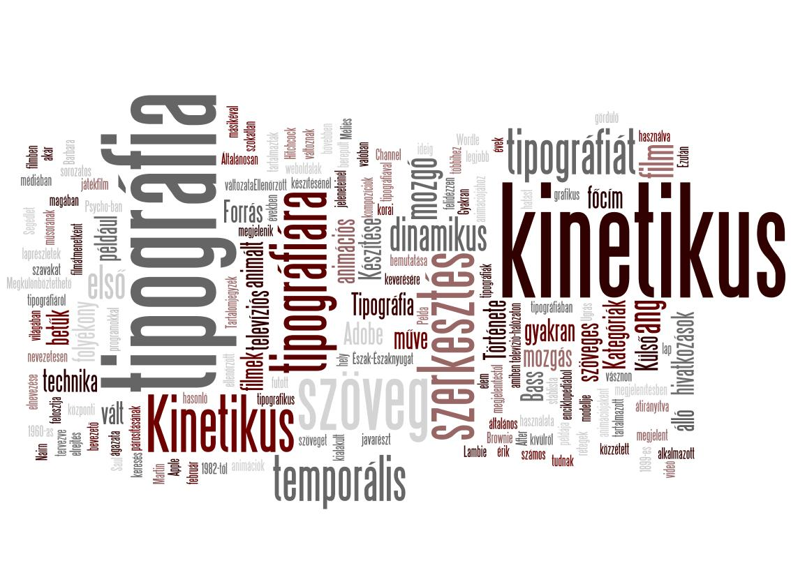 Kinetic typography based on the hungarian entry of this article in the Wikipedia.